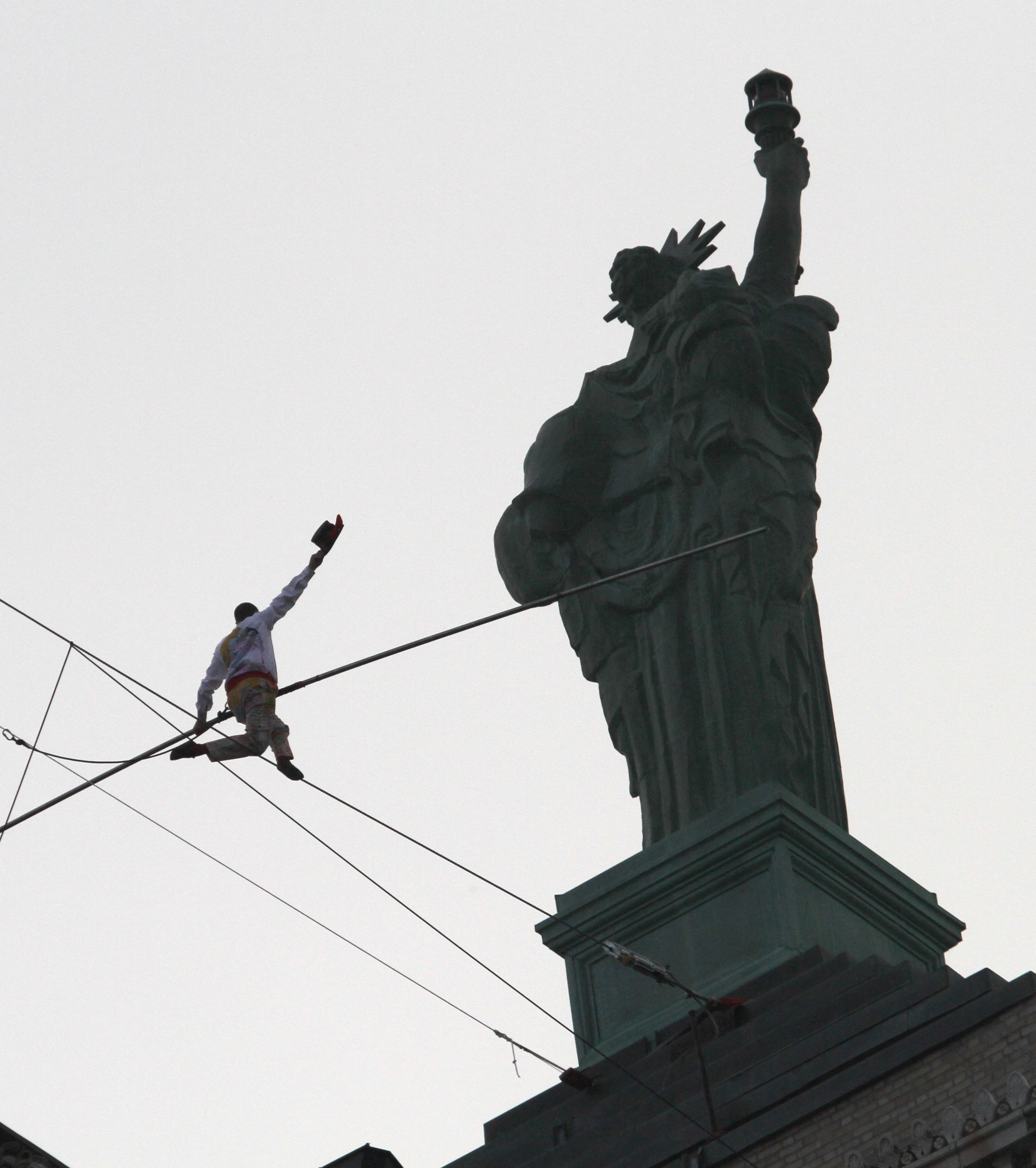 Didier Pasquette walking a tightrope between the twin statues atop the Liberty Building in downtown Buffalo, New York, as part of the opening of the 2010 Beyond/In Western New York art exhibition.